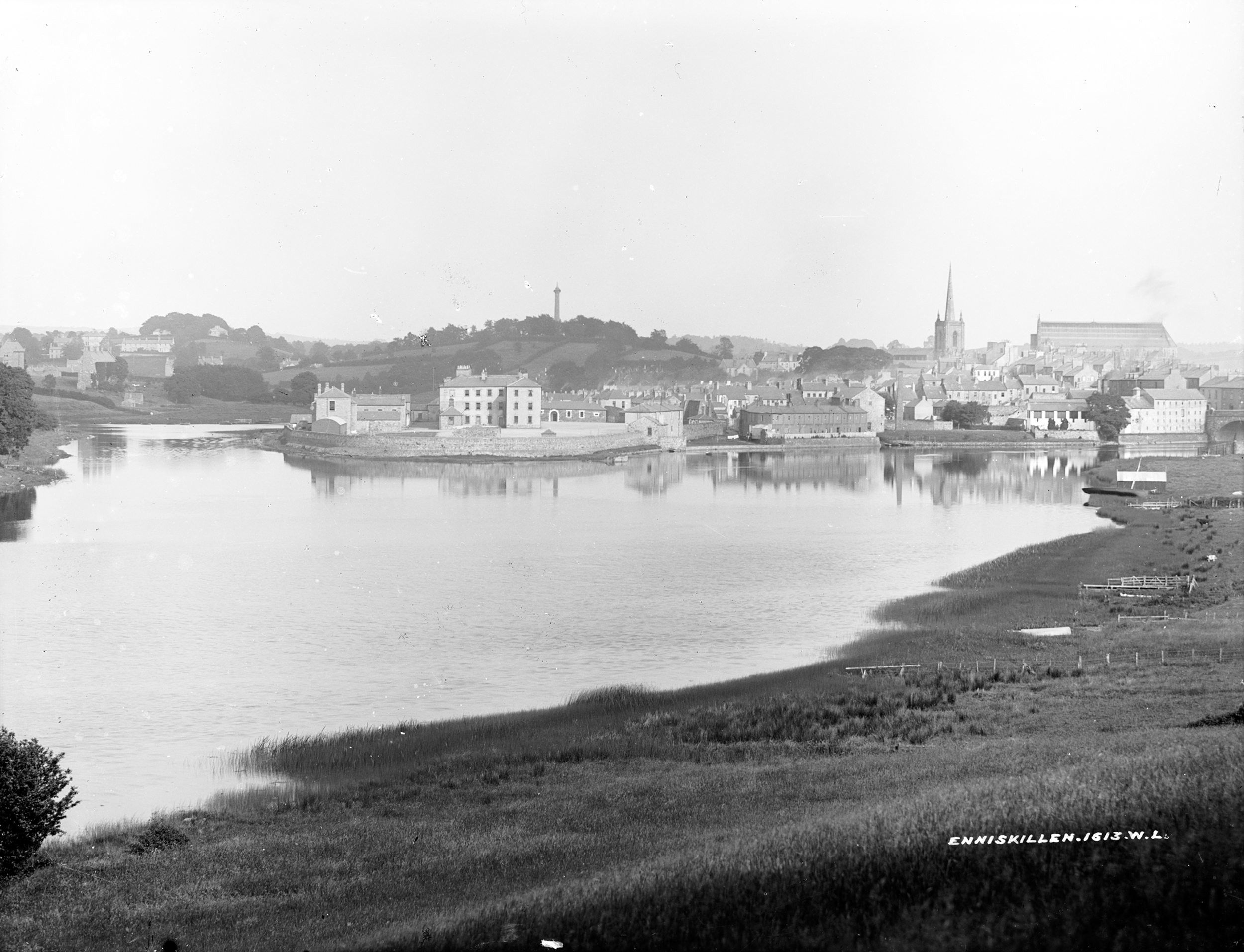 This photo was taken probably by Robert French, chief photographer of William Lawrence Photographic Studios of Dublin. You can compare this view of Enniskillen with its companion photo taken approximately 100 years later as part of the Lawrence Photographic Project 1990/1991, where one thousand photographs from the Lawrence Collection in the National Library of Ireland were replicated a hundred years later by a team of volunteer photographers, thereby creating a record of the changing face of the selected locations all over Ireland. For further information on the Lawrence Photographic Project, read all about it on our NLI Blog. Date: Starting the bidding at 1890... (but definitely after 1885) NLI Ref.: L_ROY_01613